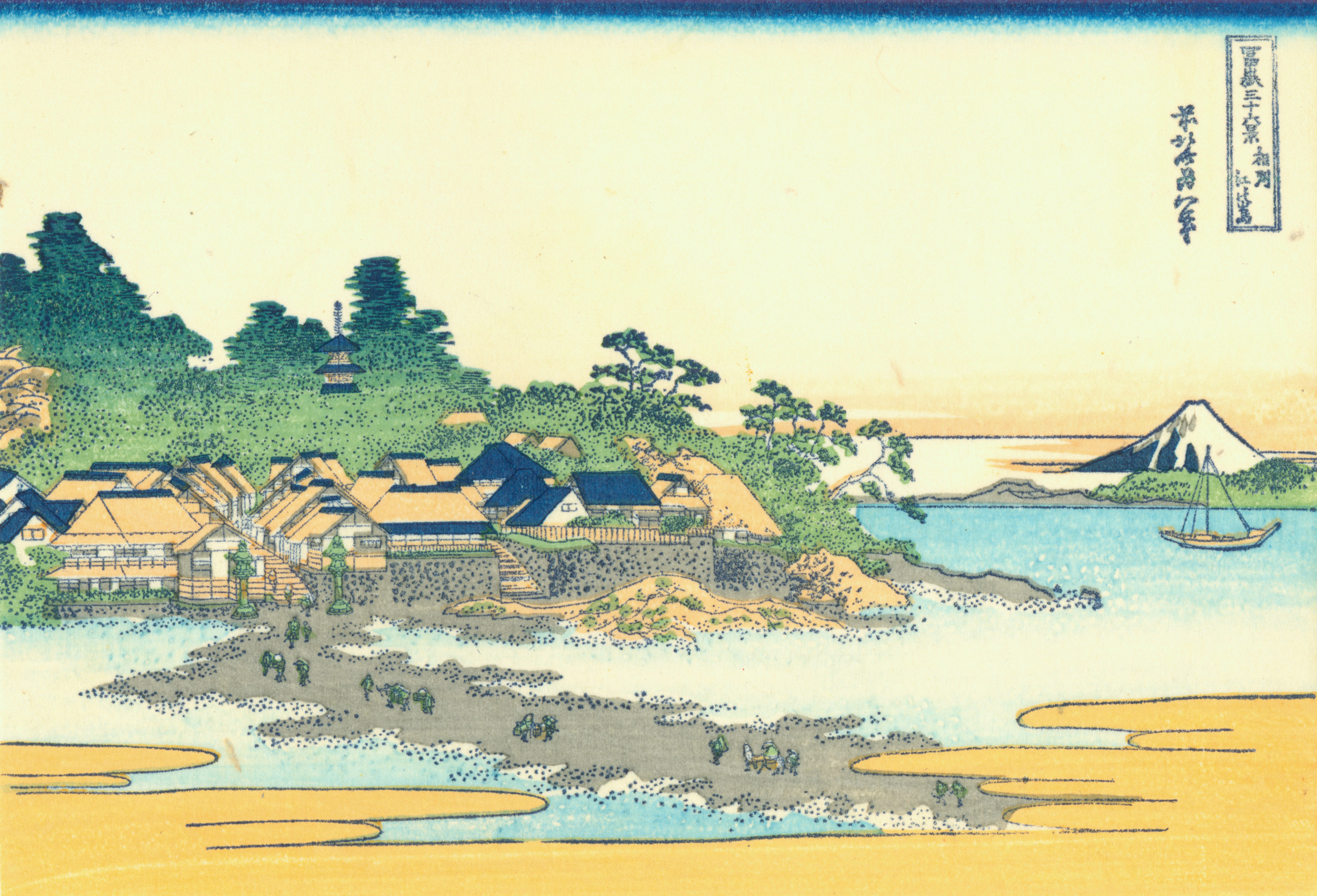 Part of the series Thirty-six Views of Mount Fuji, no. 25.